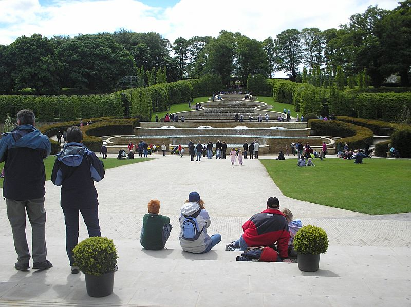 Alnwick Garden, Alnwick, Northumberland, taken by me, May 2006